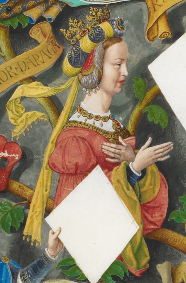 Eleanor of Albuquerque (1374-1435), Queen consort of Aragon by her marriage to King Ferdinand I.